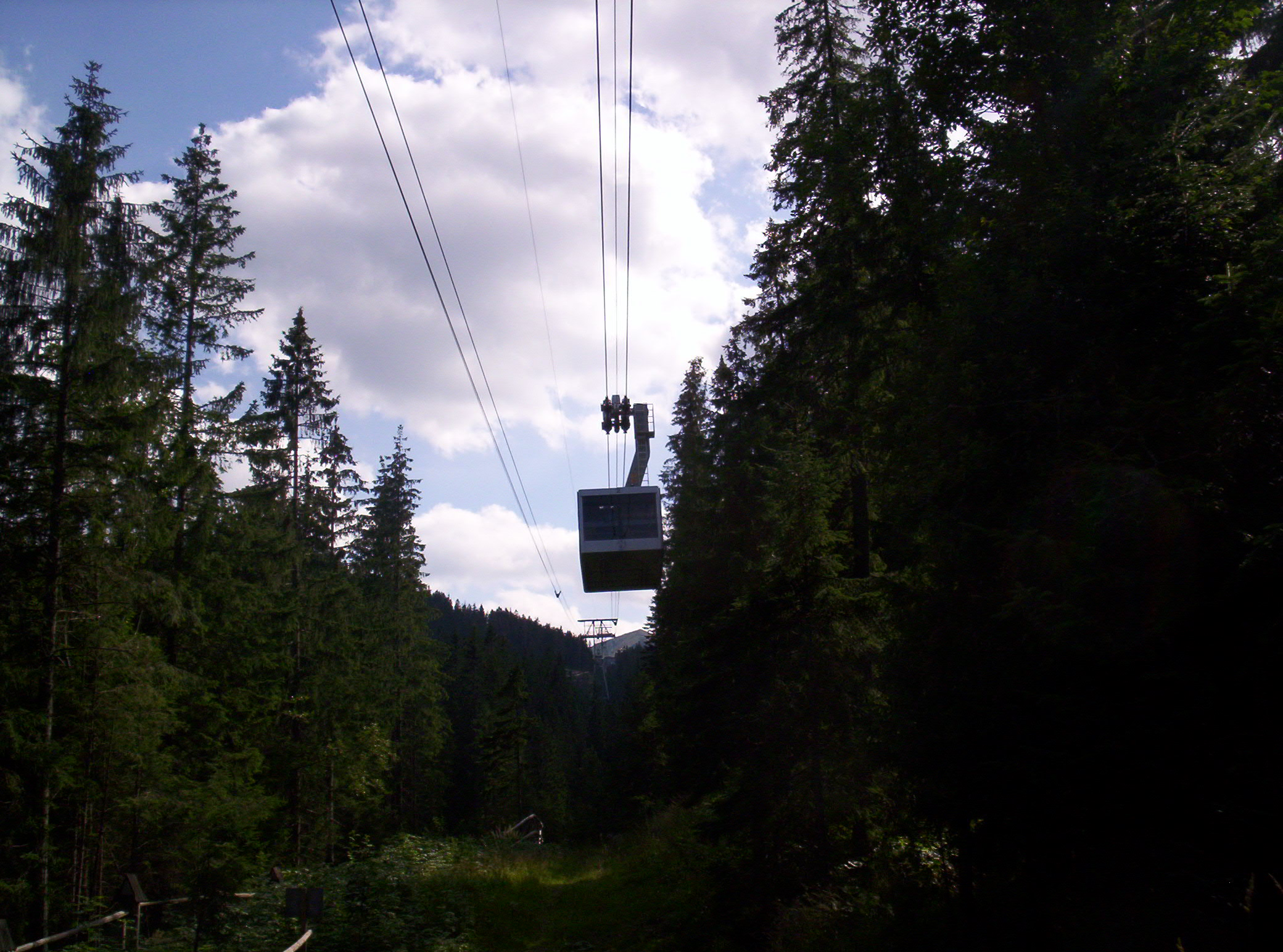 Cable railway Kasprowy Wierch